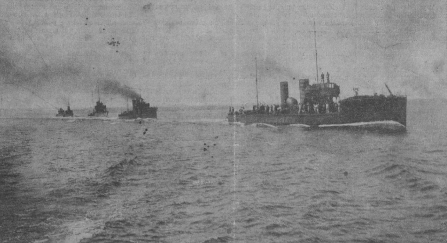 Polish torpedo boats (ex German). In a foreground ORP Mazur and ORP Kaszub (ex. V 105 and V 108) (order unknown), next: three boats A 68 class.